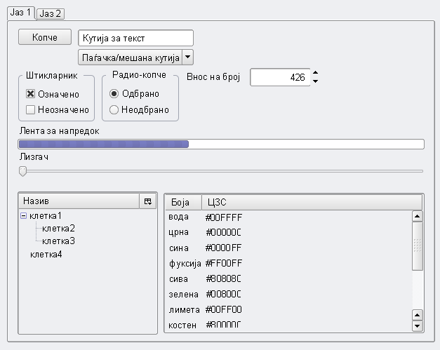 Common widgets (in Macedonian), based on the English version. First done in Inkscape as vector, but then rendered as PNG. Original was rendered in Firefox 3.0b2pre with the gtk-qt theme for GTK and the Plastik theme for Qt.